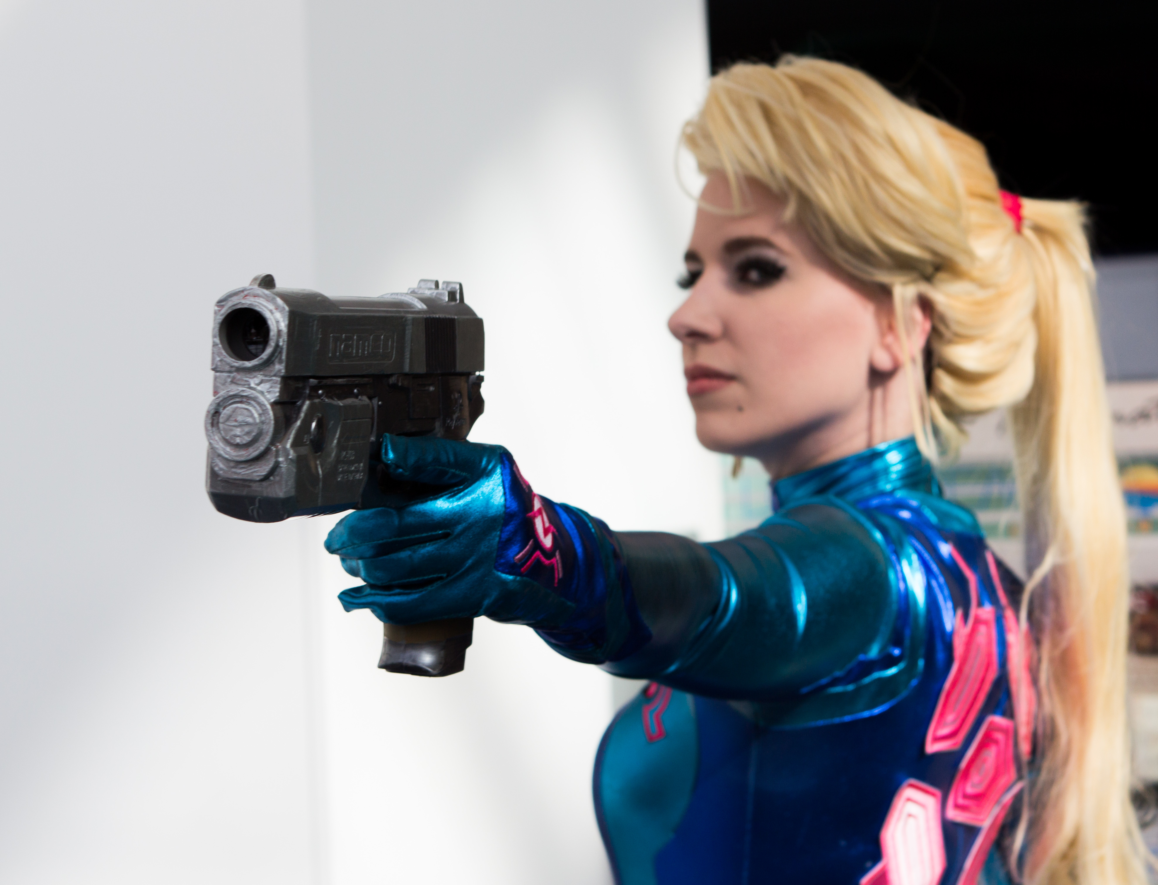 Samus Aran Cosplay at Long Beach Comic Con 2013.